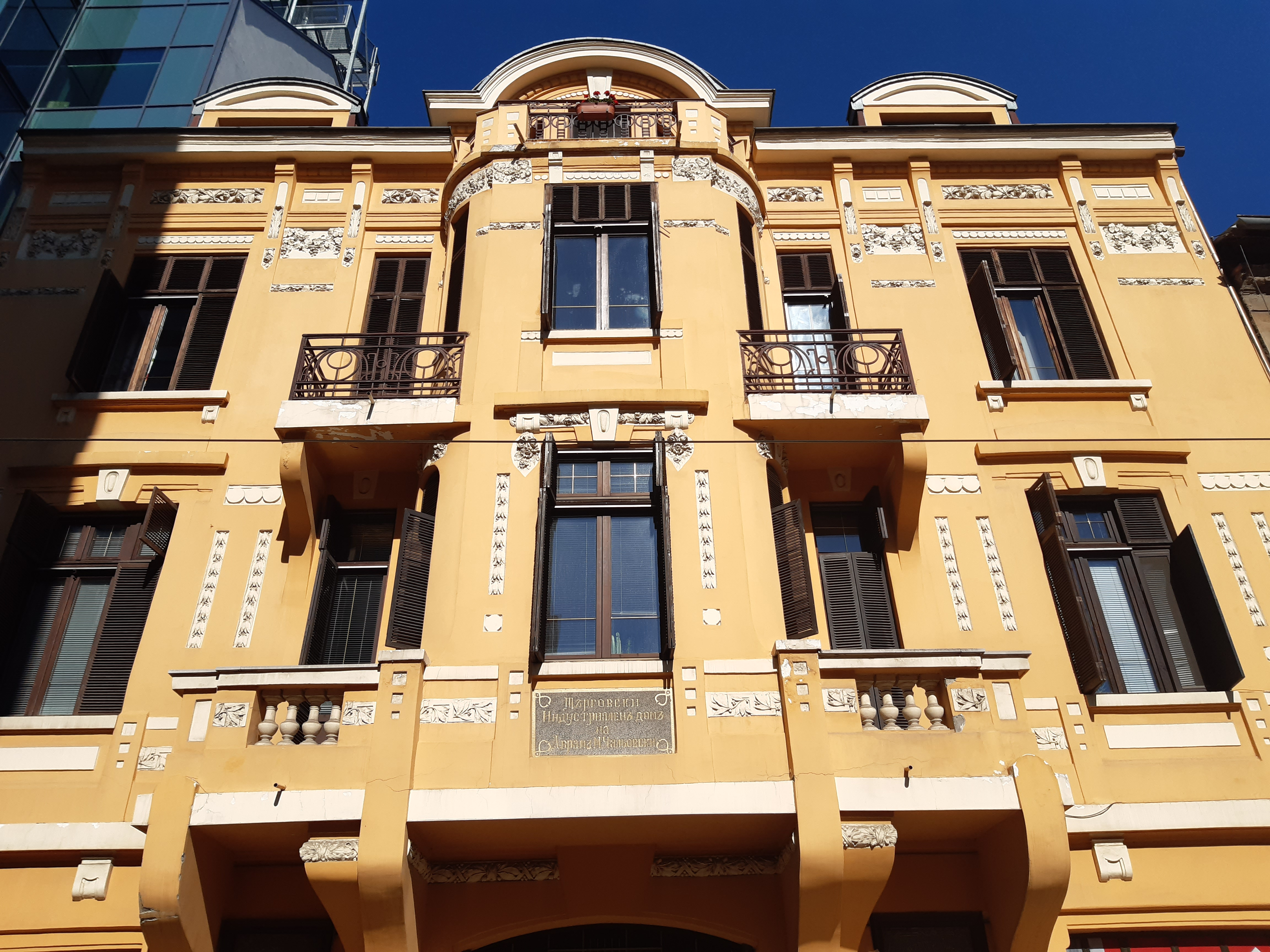 Chalyovski House